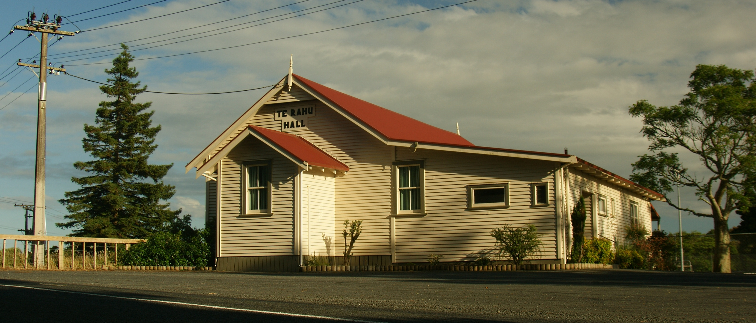 Te Rahu Hall, Te Rahu near Te Awamutu